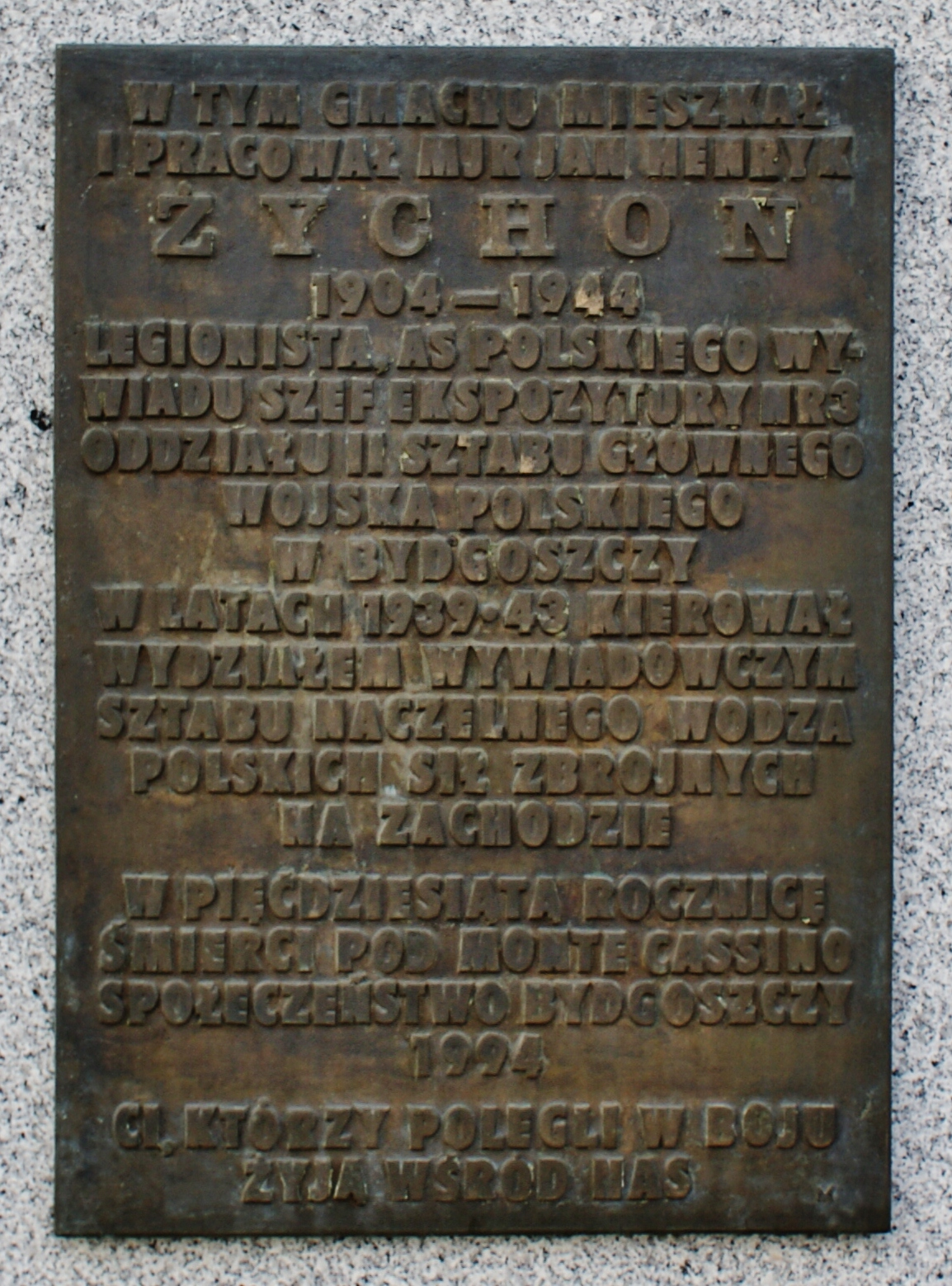 Mjr Jan ŻYCHOŃ commemoration plaque, Bydgoszcz City Police Headquarters, Poniatowski Str., Bydgoszcz, Kuyavian-Pomeranian Voivodeship, Poland. The inscription says: "Mjr Jan Henryk ŻYCHOŃ lived and worked in this very building. Piłsudski's Legions soldier, Polish Intelligence Service Ace, chief of 3rd Intelligence Office of 2nd Polish Army Headquarters in Bydgoszcz. He run the Intelligence Department of Polish Army in the West Comender in Chief Headquarters between 1939 and 1943. Died in battle of Monte Cassino. In 50th aniversary of his death People of Bydgoszcz. 1994 Those who died in battle live among us"